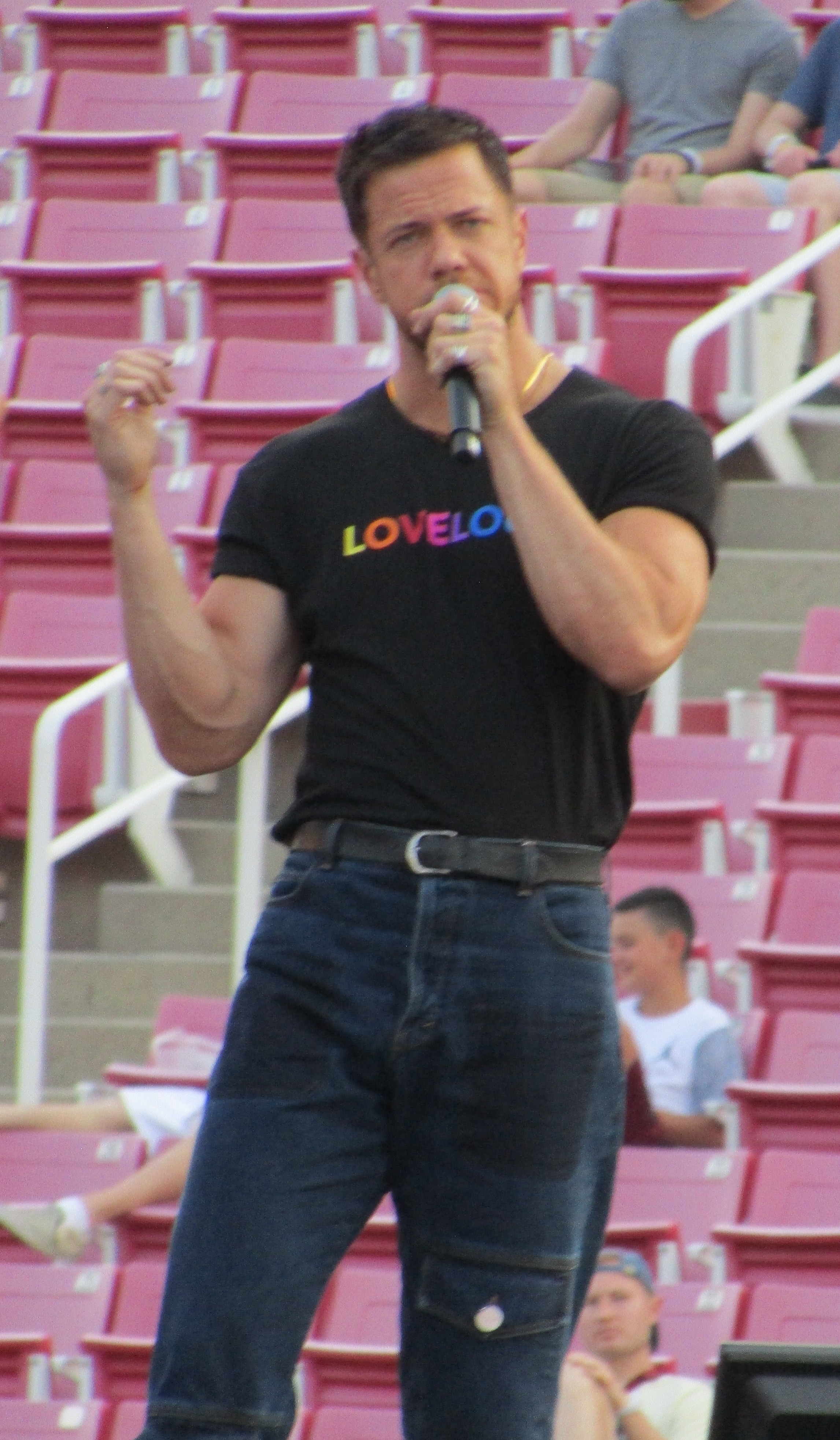 Dan Reynolds speaking at LoveLoud 2018.